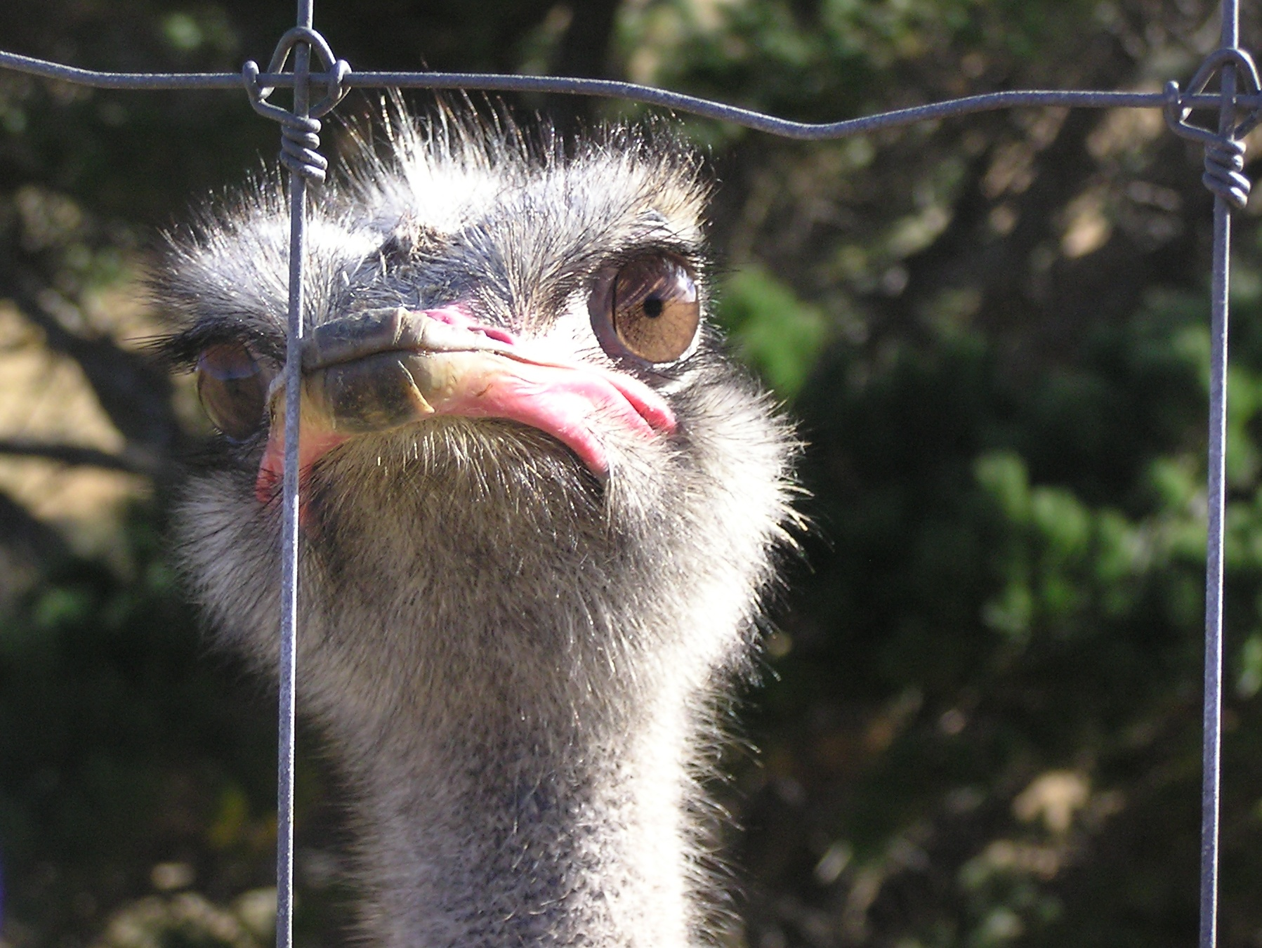 The Ostrich Struthio camelus is now farmed, primarily for the low fat meat. The Ostrichs are contained by a 2m high fence with an electrified wire running along the top - perhaps contributing to this bird's contemplation of the fence.